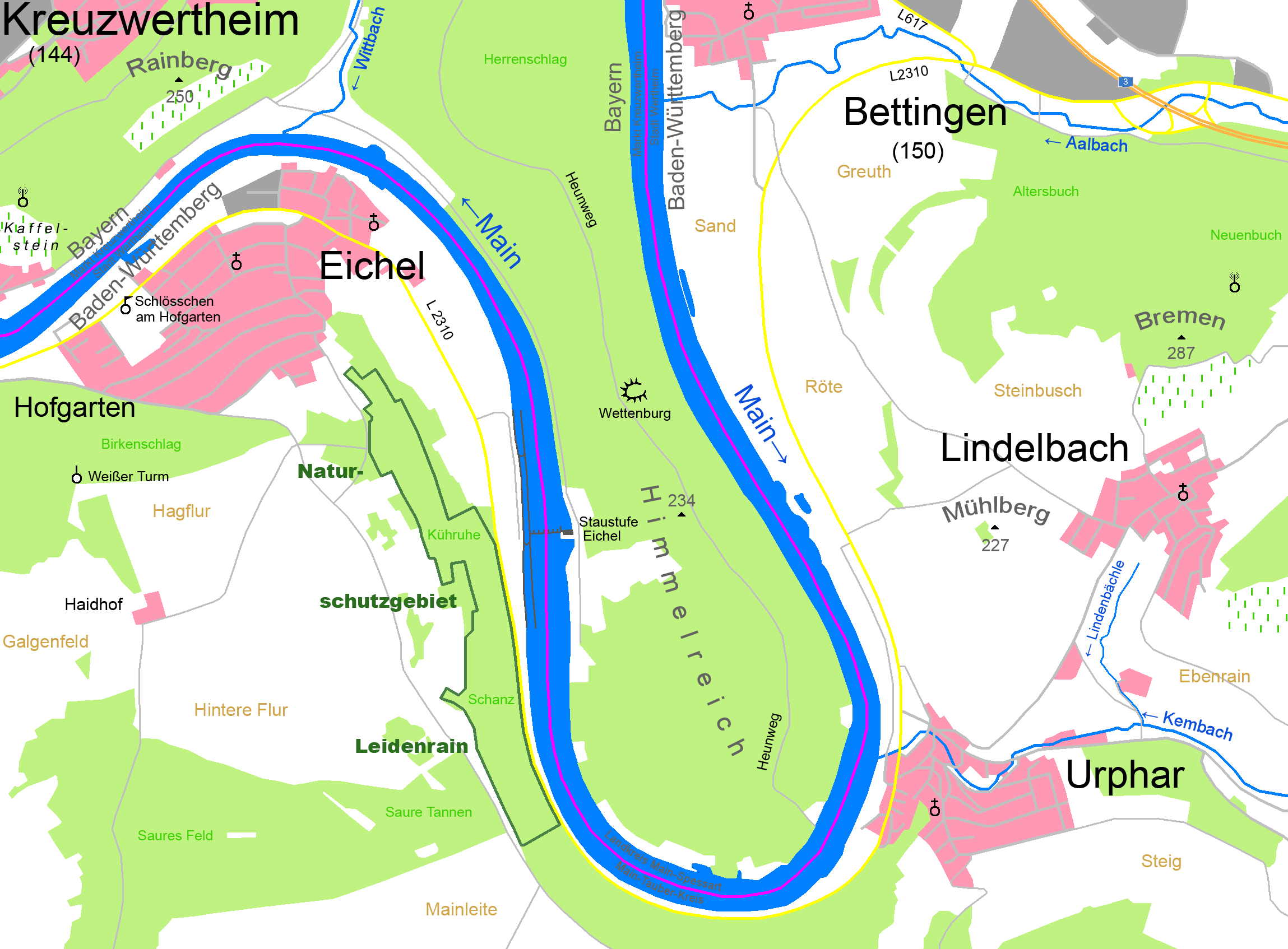 Map of the Mainschleife (bend of the Main river) near Urphar on the edge of south east of the Spessart in Bavaria and Baden-Württemberg Settlement area Industrial area Forest Grassland, Meadow Body of water Vineyard Castle site Church Observation tower Main street Side street Agricultural road and Forest road Border of nature reserve State border Mountain 399 Above sea level Fink Field name Radio mast